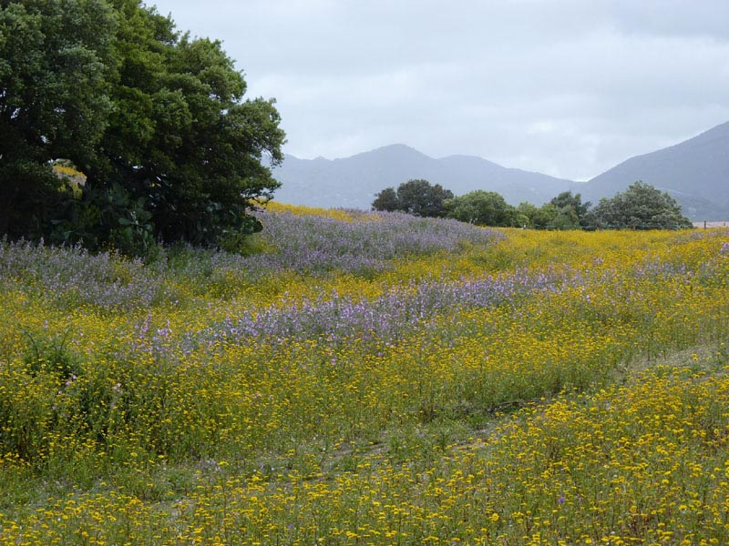 Chrysanthemum coronarium